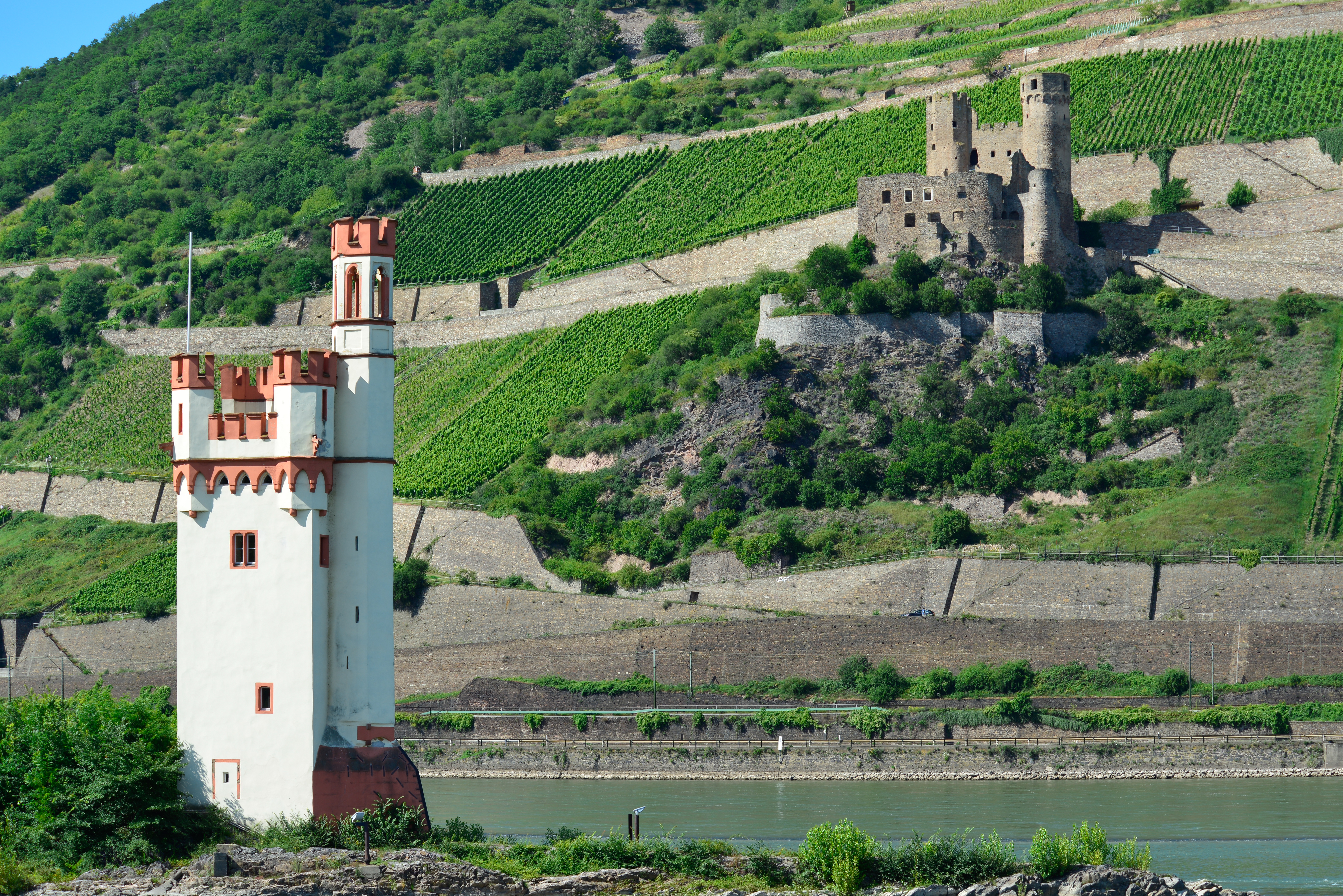 Binger "Mouse Tower" and Ehrenfels Castle.